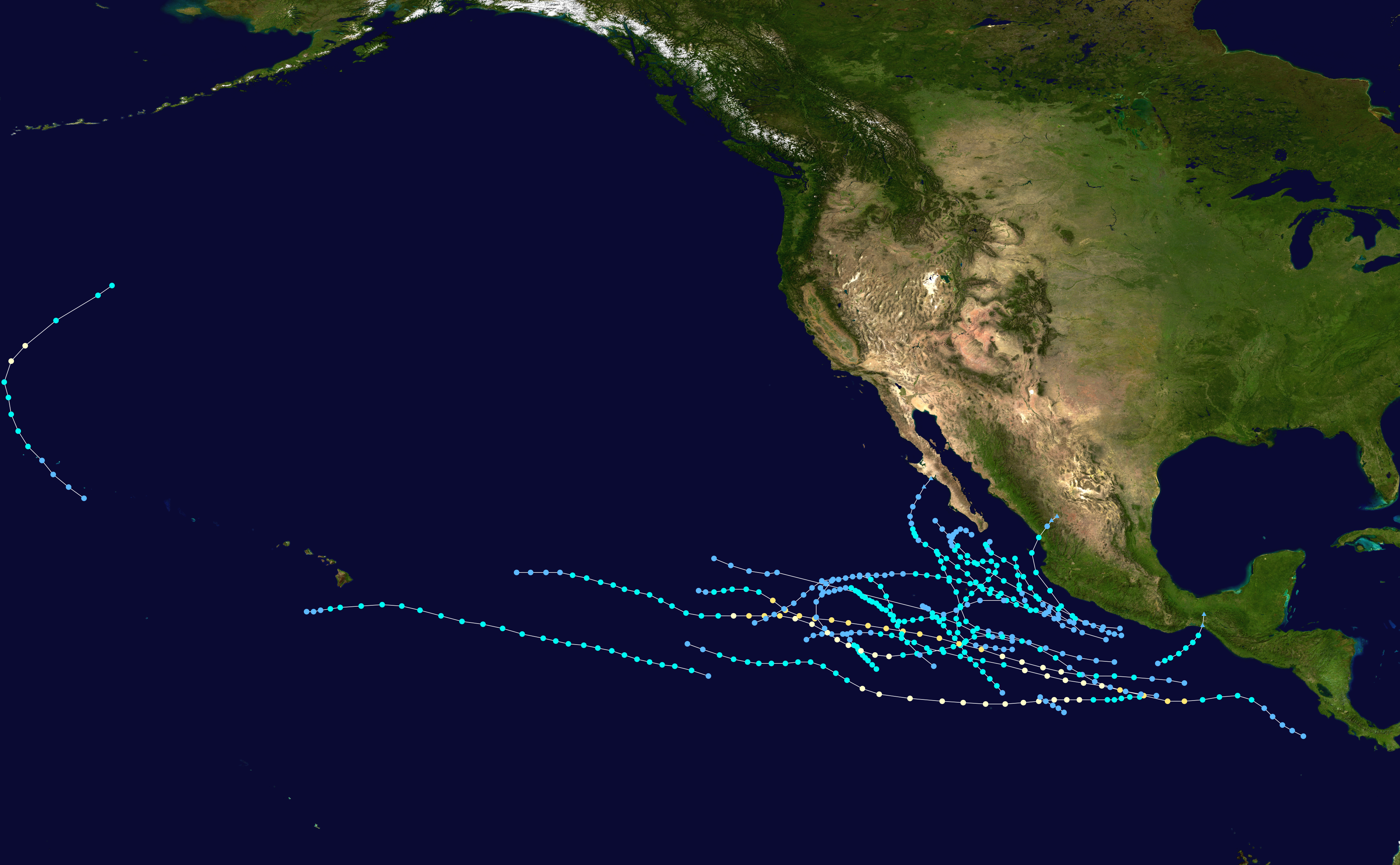 This map shows the tracks of all tropical cyclones in the 1970 Pacific hurricane season. The points show the location of each storm at 6-hour intervals. The colour represents the storm's maximum sustained wind speeds as classified in the Saffir-Simpson Hurricane Scale (see below), and the shape of the data points represent the type of the storm. Saffir–Simpson hurricane wind scale Tropical depression≤38 mph≤62 km/h Category 3111–129 mph178–208 km/h Tropical storm39–73 mph63–118 km/h Category 4130–156 mph209–251 km/h Category 174–95 mph119–153 km/h Category 5≥157 mph≥252 km/h Category 296–110 mph154–177 km/h Unknown Storm typeTropical cycloneSubtropical cycloneExtratropical cyclone / Remnant low / Tropical disturbance